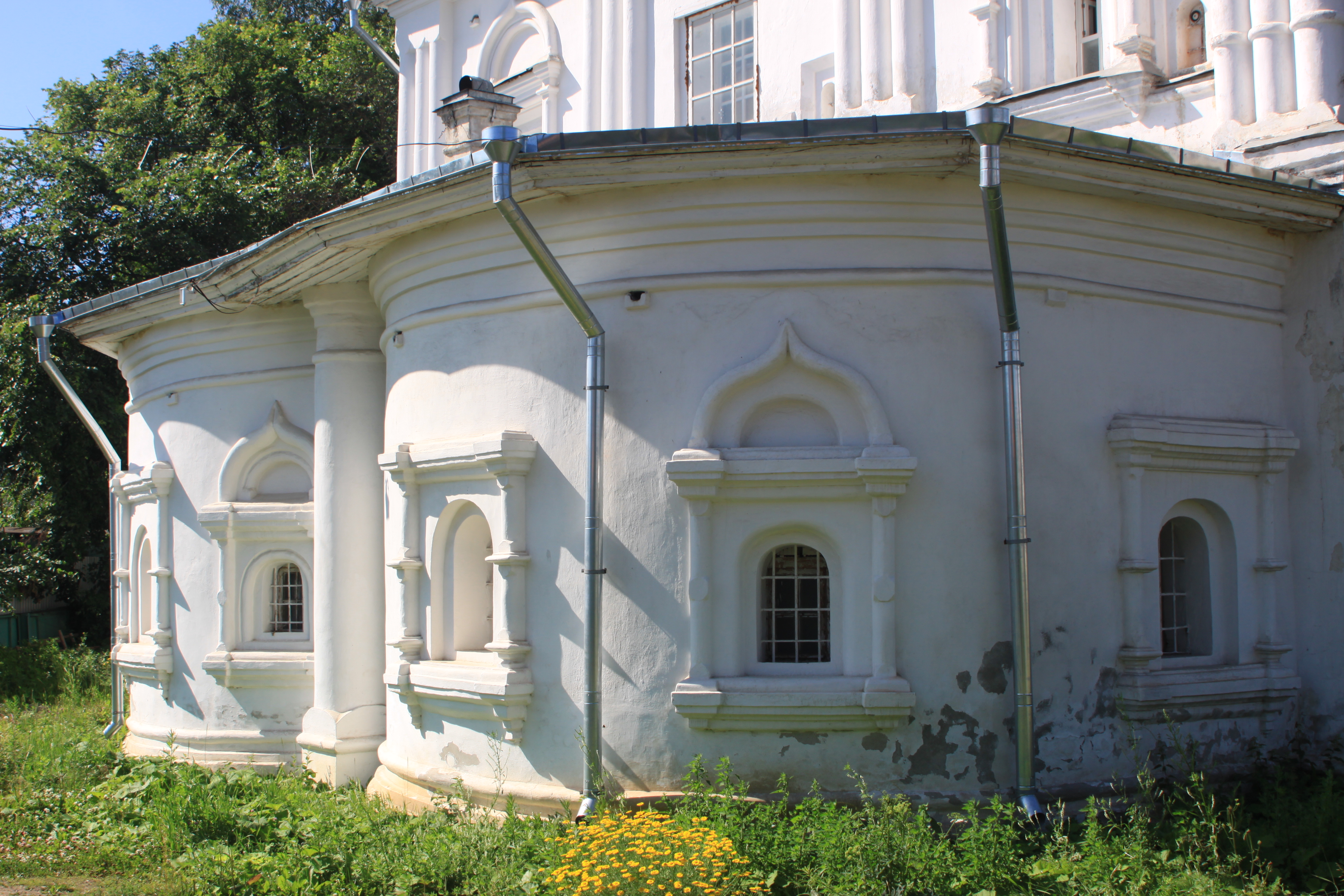 Constantine and Helena Church in Vologda, 2 abses